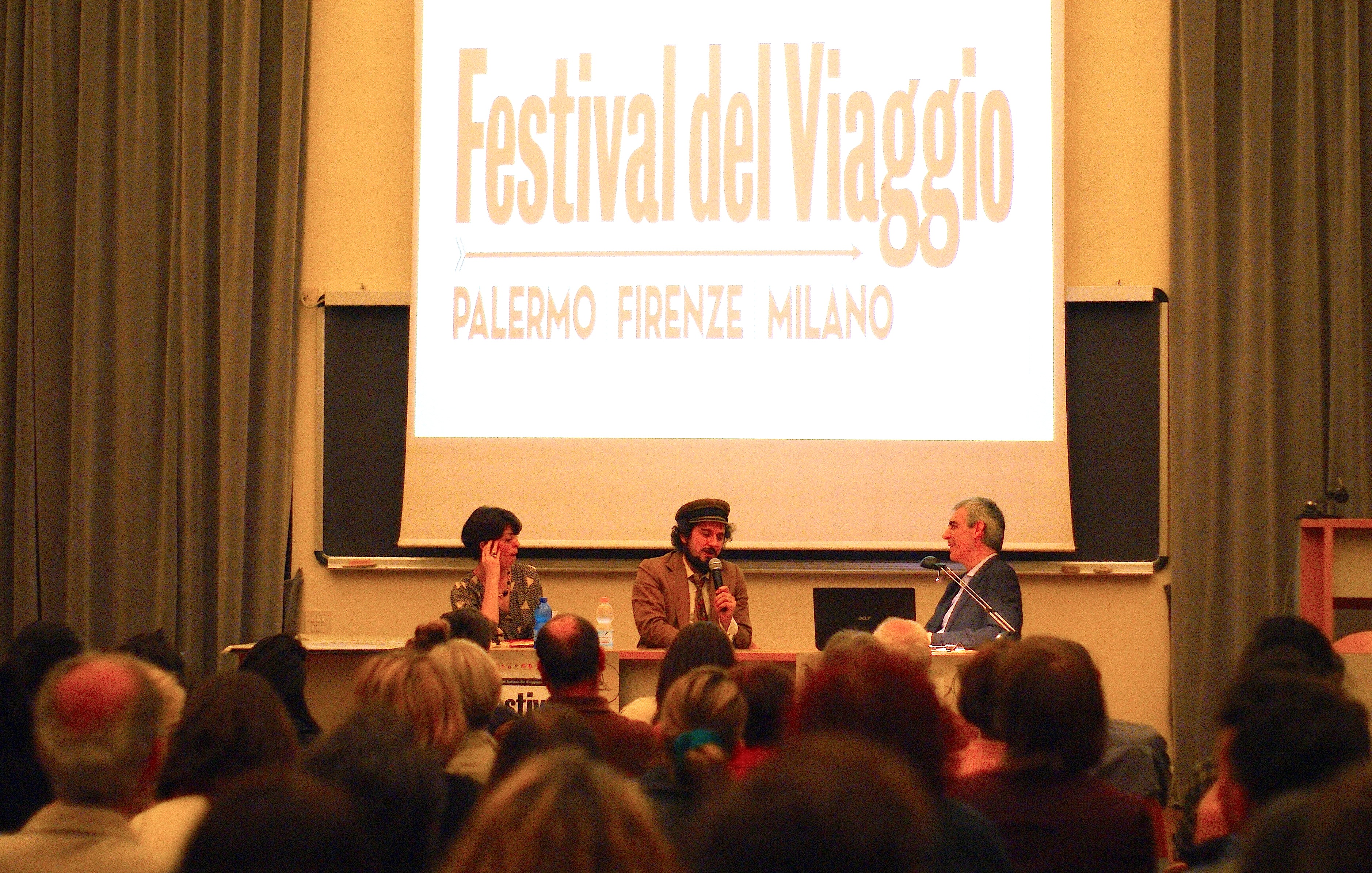 1The Italian singer Vinicio Capossela at the 'Festival del Viaggio' 2013 at Anthropological Museum in Florence